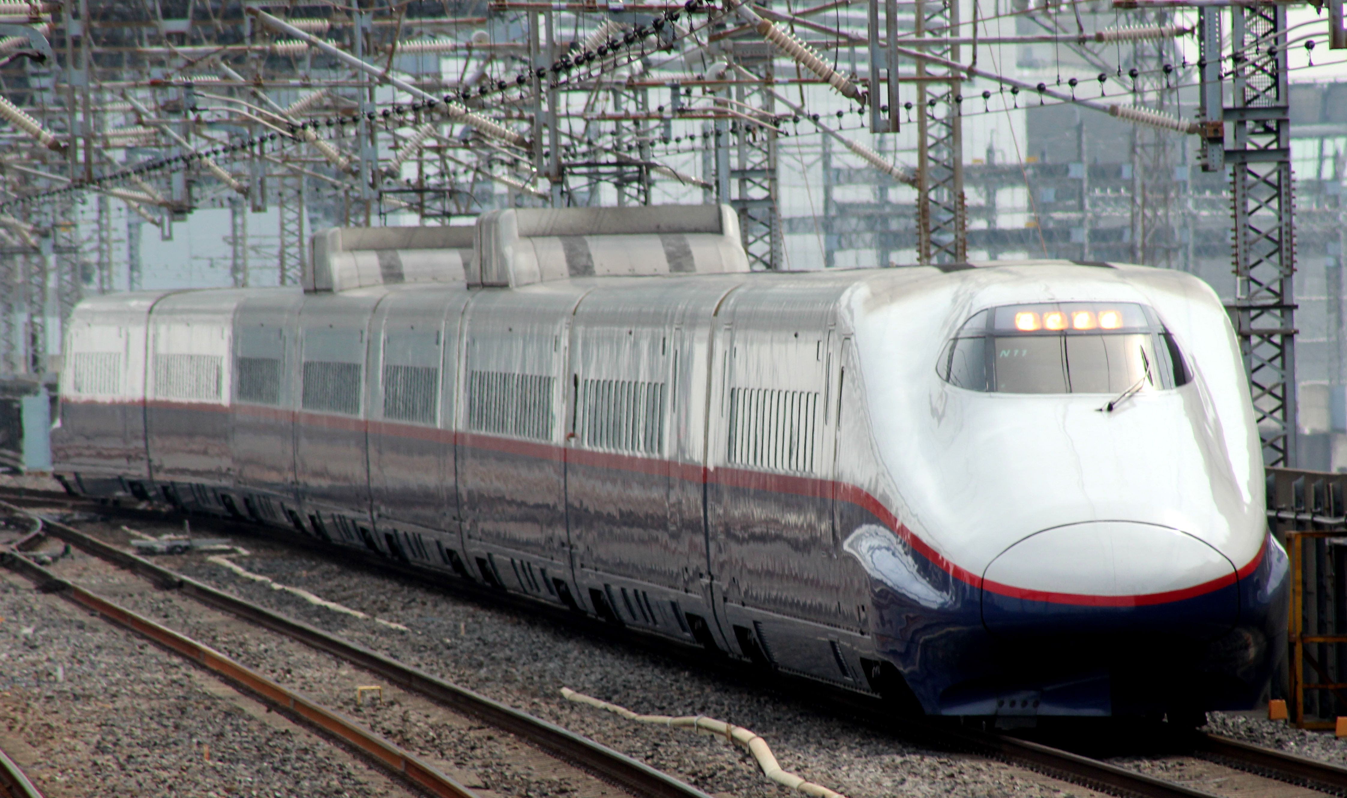 JR East E2 series shinkansen set N11 approaching Omiya Station on a Nagano Shinkansen Asama service